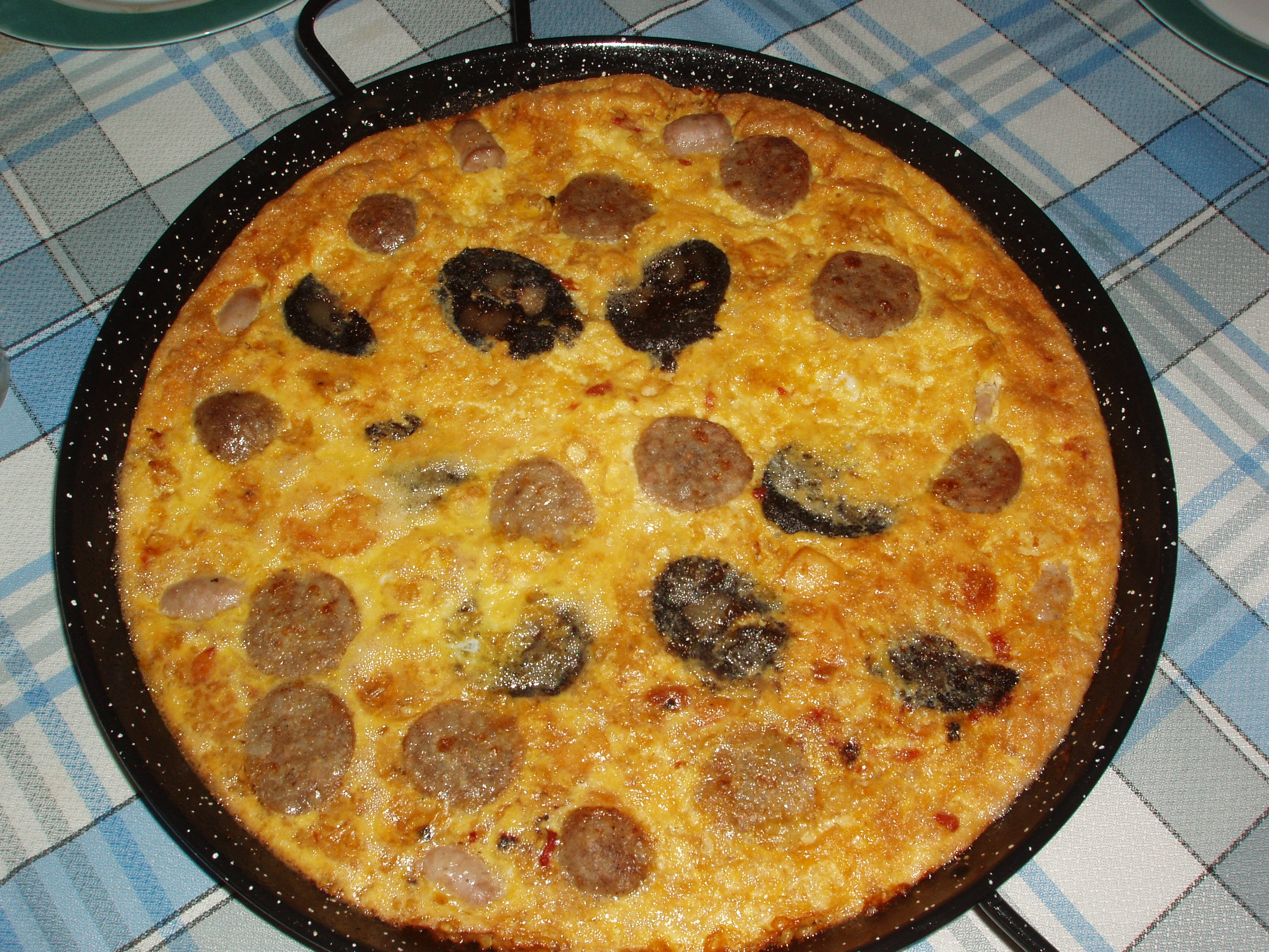 Arroz con costra or Arròs amb costra (Rice with crust). A typical Valencian plate made of rice wich is originated from the comarcas of Vega Baja and Baix Vinalopó, in the province of Alacant.